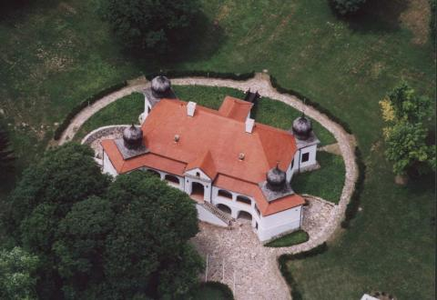 Mohora, Hungary, aerialphotography